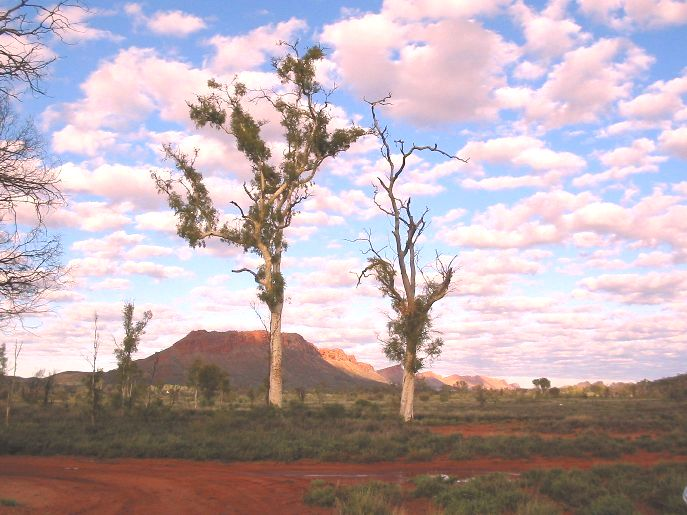 Ghost Gums in Central Australia, that were painted by artist Albert Namatjira.